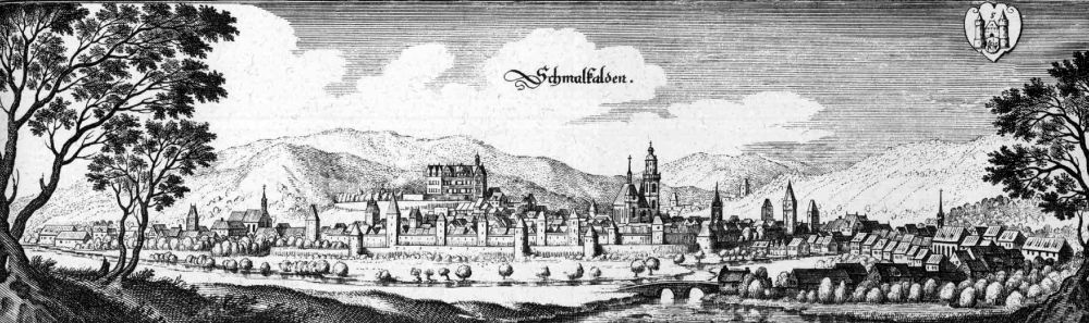 This is a scan of the historical document: Title: Schmalkalden - Topographia Hassiae language: german